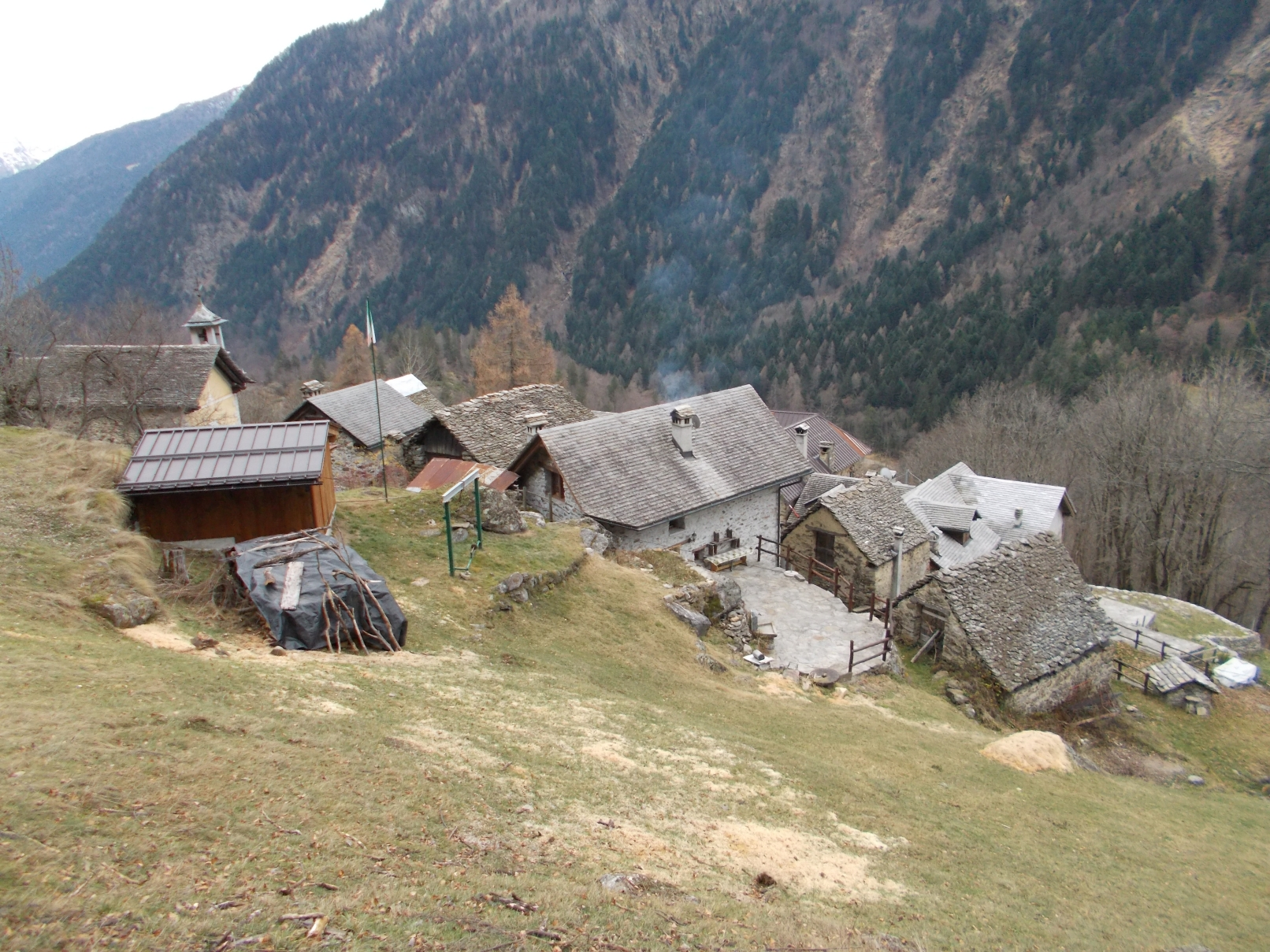 Panorama of Stabioli - part of Macugnaga (VB) - Piedmont - Italy